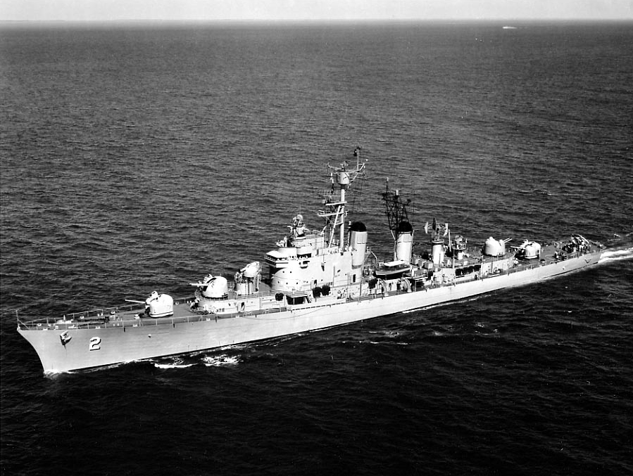 The U.S. Navy destroyer leader ("frigate") USS Mitscher (DL-2) underway at slow speed on 8 February 1957.